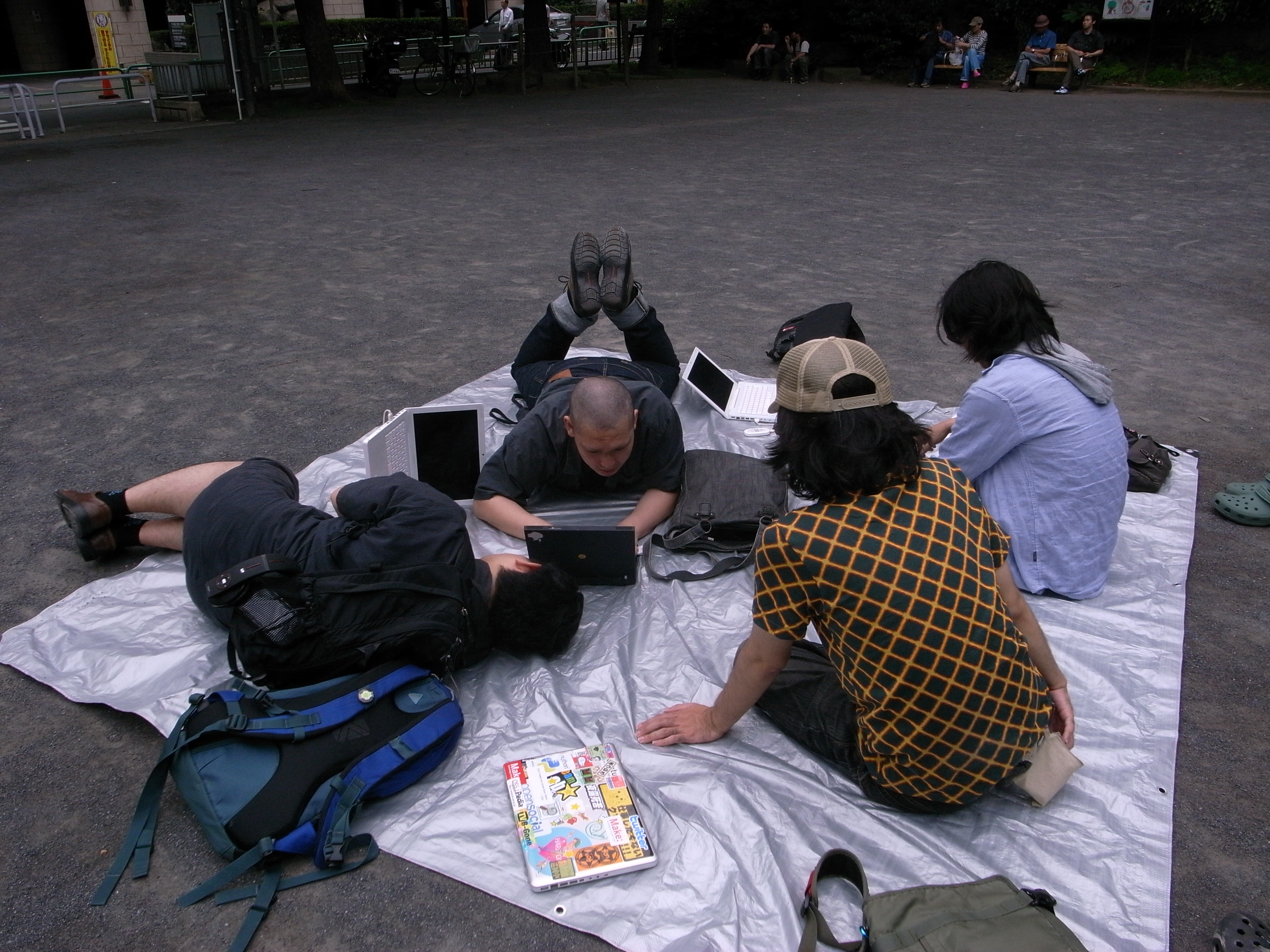 Street computing at park (Japan)